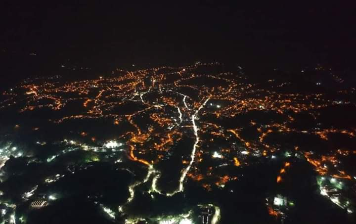 NIGHT VIEWS OF THE CITY